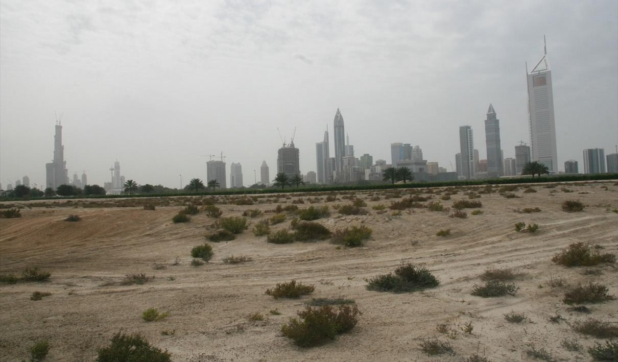 This is a photo showing the Sheikh Zayed Road skyline in Dubai, United Arab Emirates on 2 March 2007.